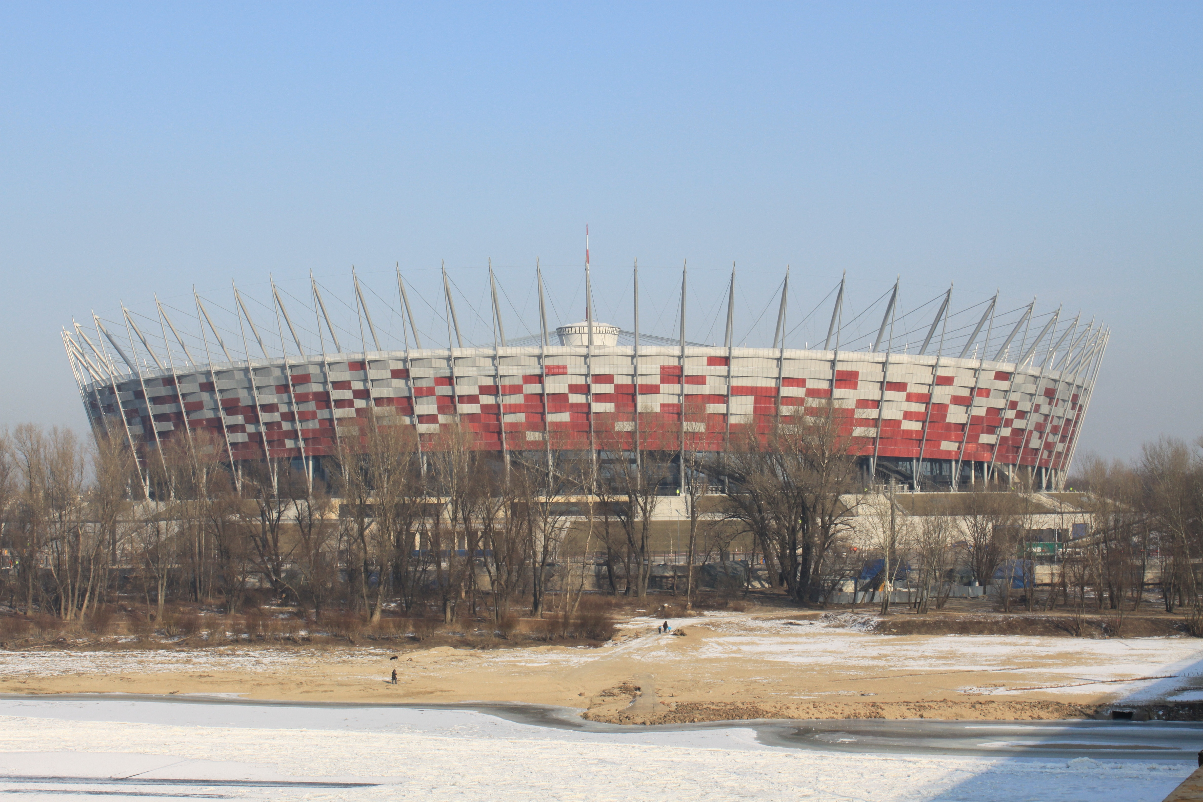 National Stadium in Warsaw.